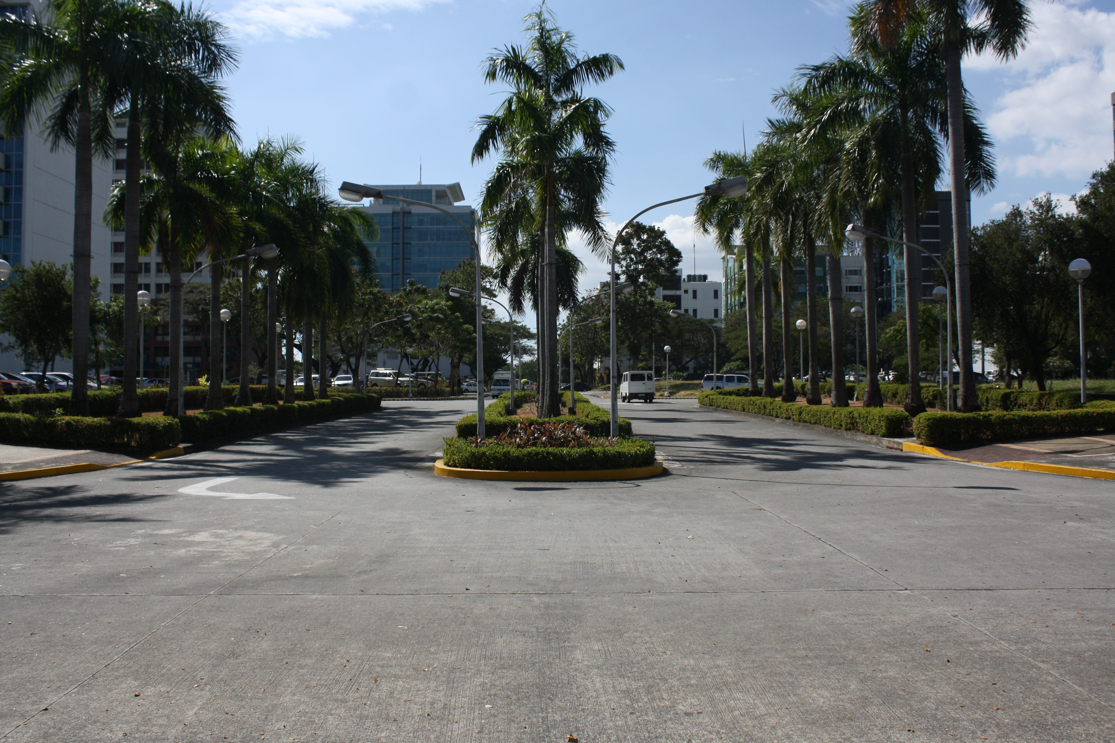 A part of the city view in Alabang, Muntinlupa, Philippines